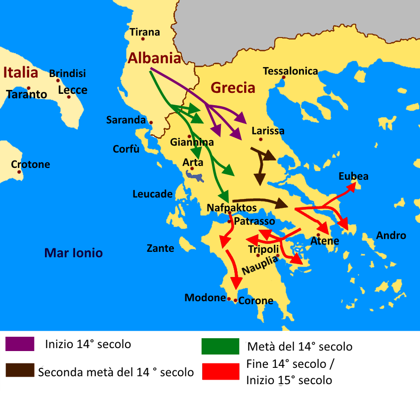 Albanian emigration in Greece between the fourteenth and sixteenth centuries